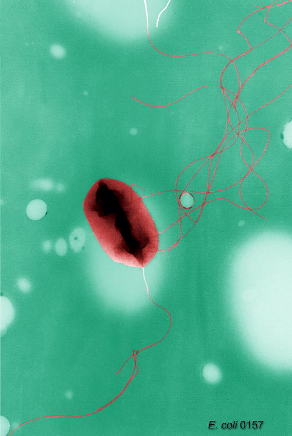 Escherichia coli O157:H7, cell with flagella, transmission electron microscopy, pseudoreplica technique